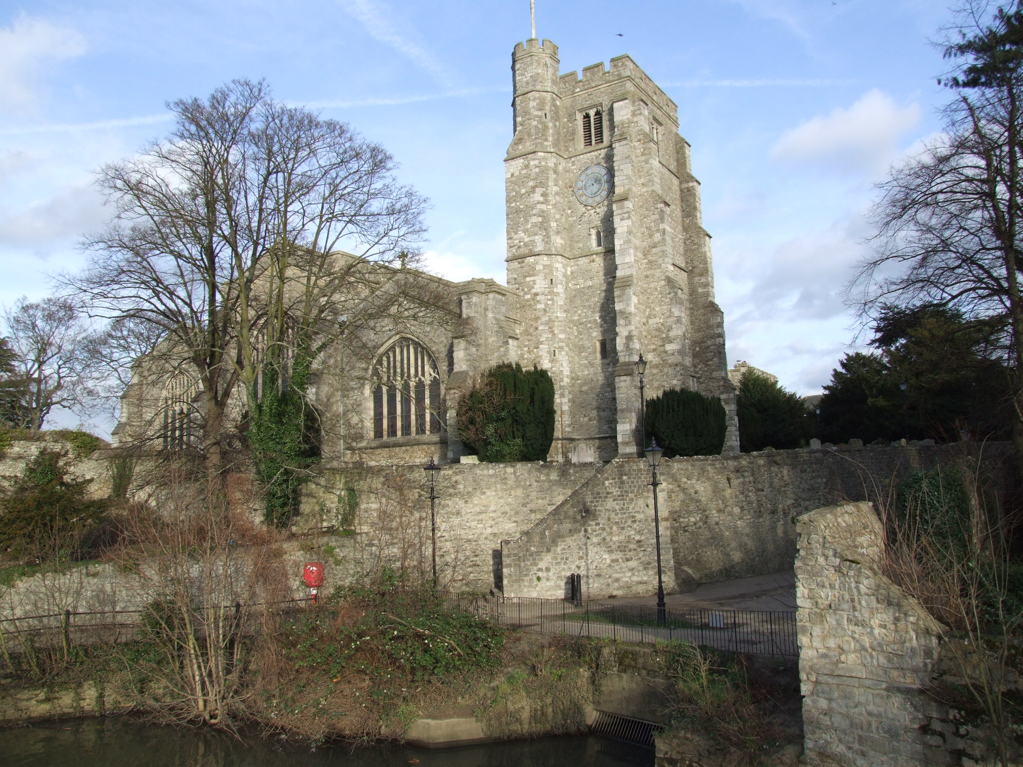 The Horse Way and All Saints' parish church, Maidstone, Kent, seen from the southwest from the River Medway